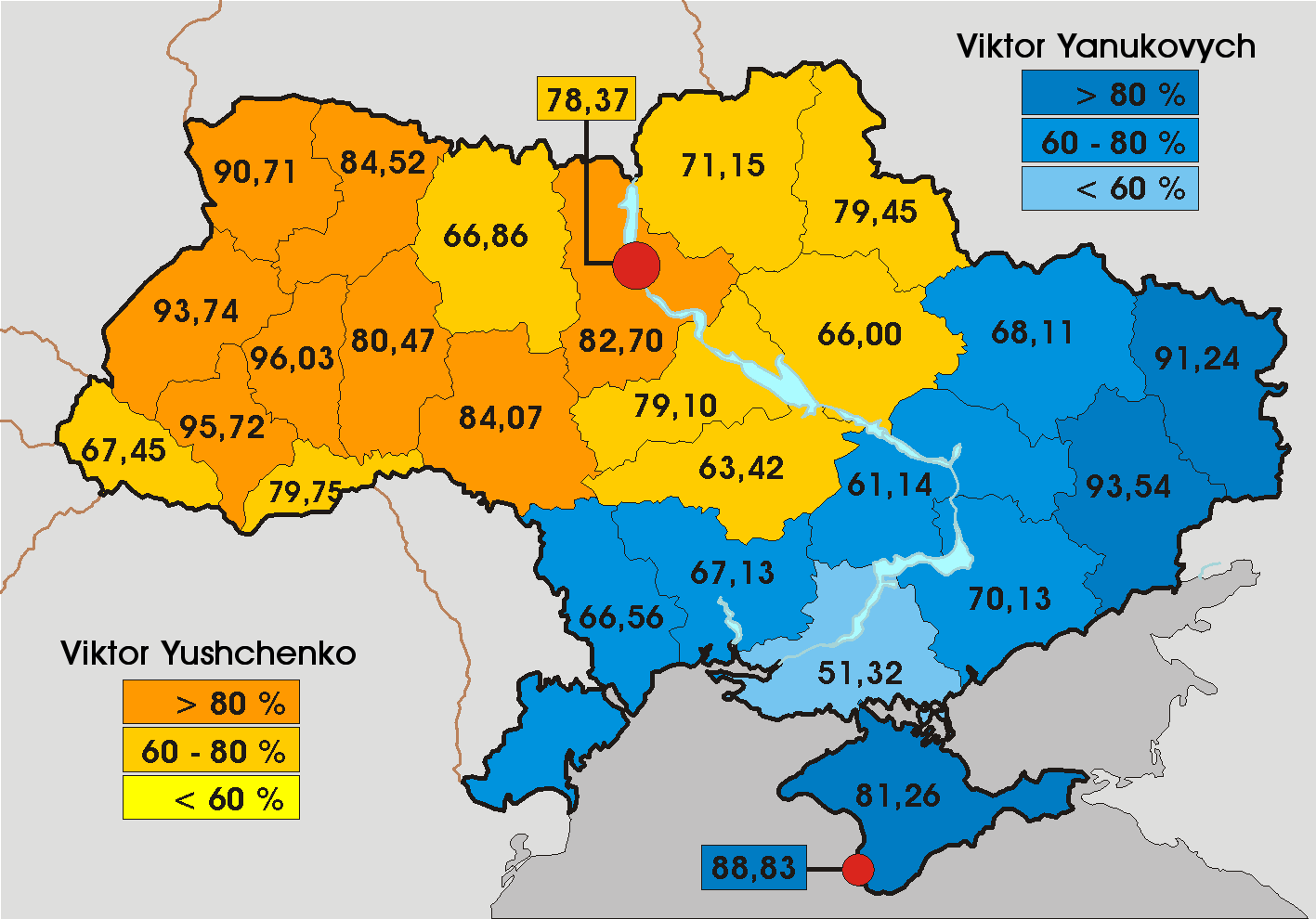 Results of the re-run second round of the Ukrainian presidential election, 2004 (26/12/04)